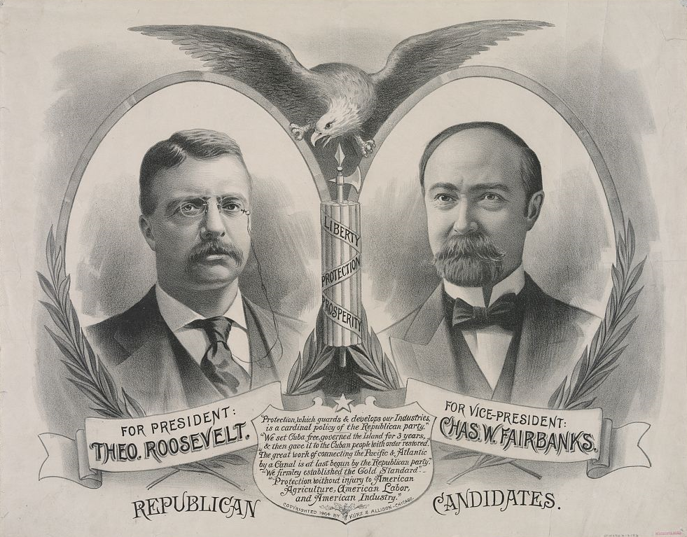 1904 Republican candidates. For President, Theo. Roosevelt. For Vice President, Chas. W. Fairbanks